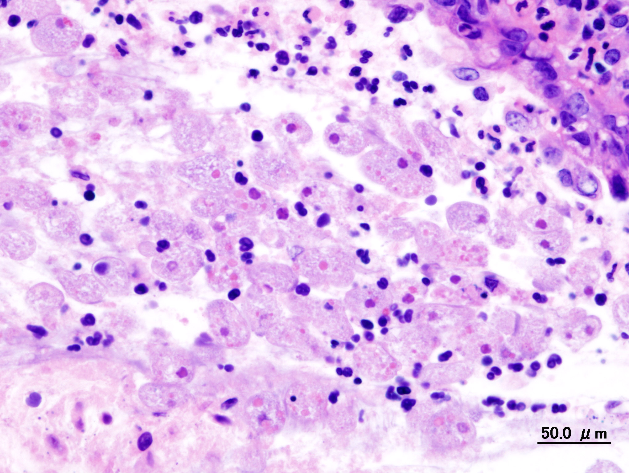 Histopathologic image of amoebic dysetery found in endoscopic colonic biopsy.